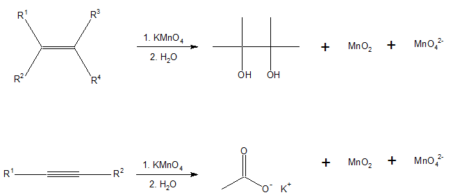 Chemical structure of Baeyer's reagent